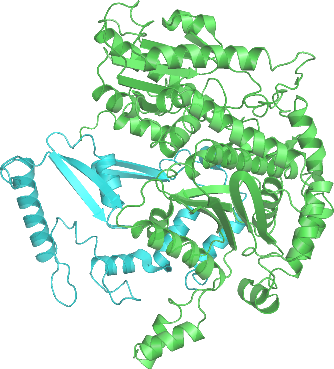 By Richard Wheeler (Zephyris) 2006. For the metabolic pathways wikiproject.